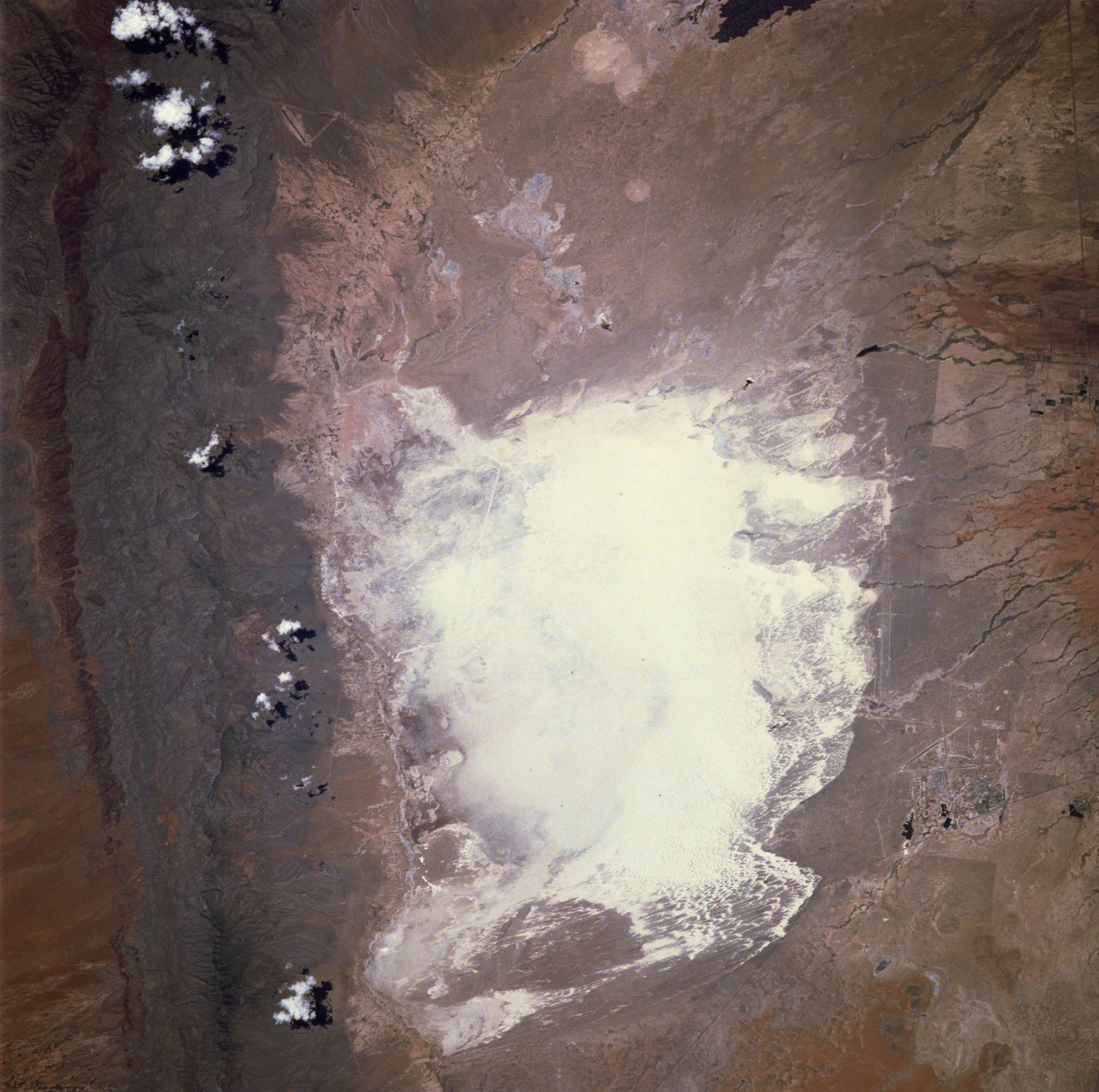 Satellite image of the White Sands National Monument, New Mexico, USA. Image